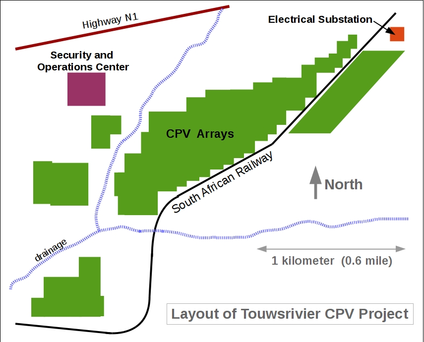 This image shows the general layout and features of the facility.